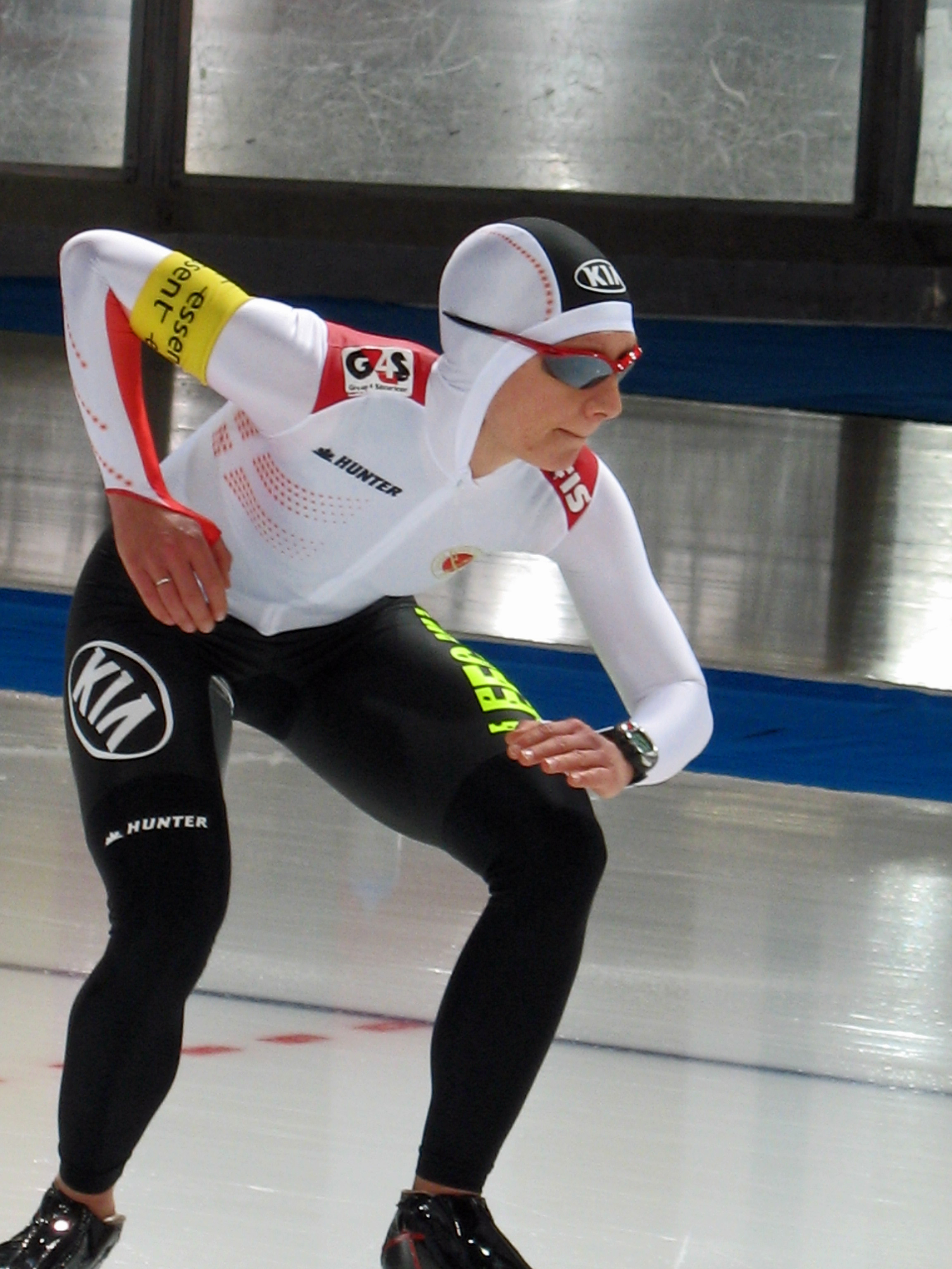 Catherine Grace start 3.000m World Cup Berlin november 2008